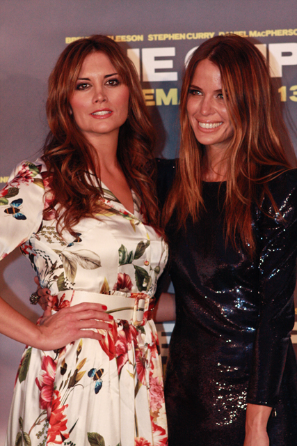 Actresses Alice Parkinson (L) and Jodi Gordon (R) attend 'The Cup' Sydney premiere Melbourne Cup Movie Sydney Premiere, by Eva Rinaldi The film is based on jockey Damien Oliver winning the Melbourne Cup in 2002. It was the ride that made him (and the horse of the day) Media Puzzle, famous around the globe. All of this and more happened just one week after the passing away of his brother Jason. Curry plays Oliver in what what the most chaotic, yet also exciting, part of the jockey's life. The Cup follows Oliver's decision to ride in the 2002 Melbourne Cup. It was just days after his brother Jason died in a track fall. Oliver knew he was making history at the time, but was unaware it was up there with 'Phar Lap' lore. Oliver said it was a bizarre experience to watch a traumatic piece of his life unfold in film. "It's kind of weird ... it couldn't be any more emotional than actually living through it, but every time I do see vision of it, it really brings it back home to me," he said. The two-time Melbourne Cup champ said he and Curry developed a friendship as the result of the movie. "He came around to our home to visit us, he came to the races with us, we took him to the barrier trials and we became good friends," Oliver said. Something tells us that we will get to hear a lot more about the flick from Sydney based media identity (and fresh actor) Daniel MacPherson, in the coming weeks. The Cup is of course for horse racing fans, but also those who enjoy a good Aussie yarn will also get a kick (hopefully not down there) from it. Back yourself a winner and see this film. 3.5 stars out of 5. Director: Simon Wincer Writers: Simon Wincer (screenplay), Eric O'Keefe (screenplay) Staring: Brendan Gleeson, Alice Parkinson and Daniel MacPherson Websites The Cup official website Roadshow Films Village Roadshow Credit: Julia Molodeva